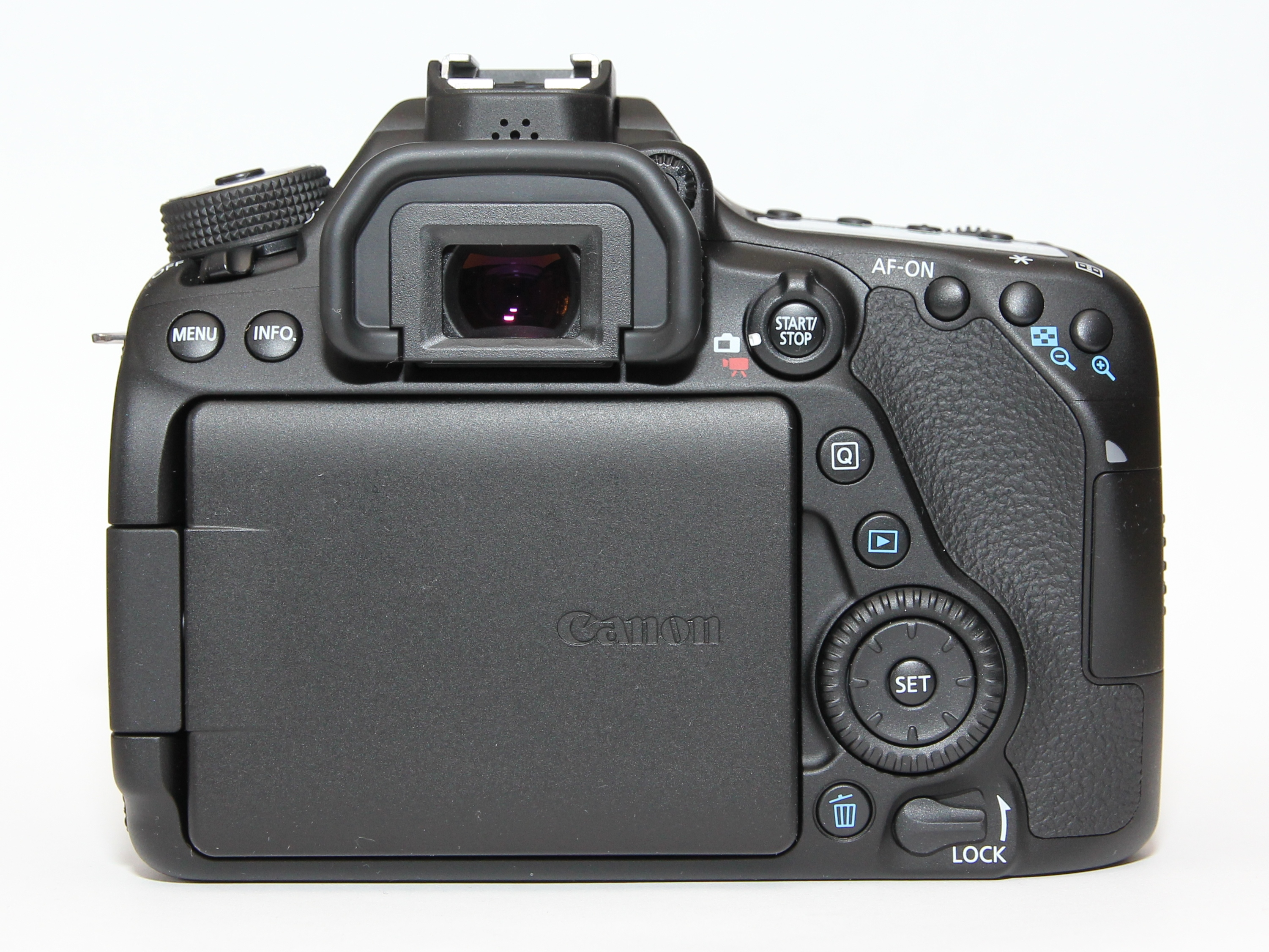 Canon EOS 80D DSLR body.